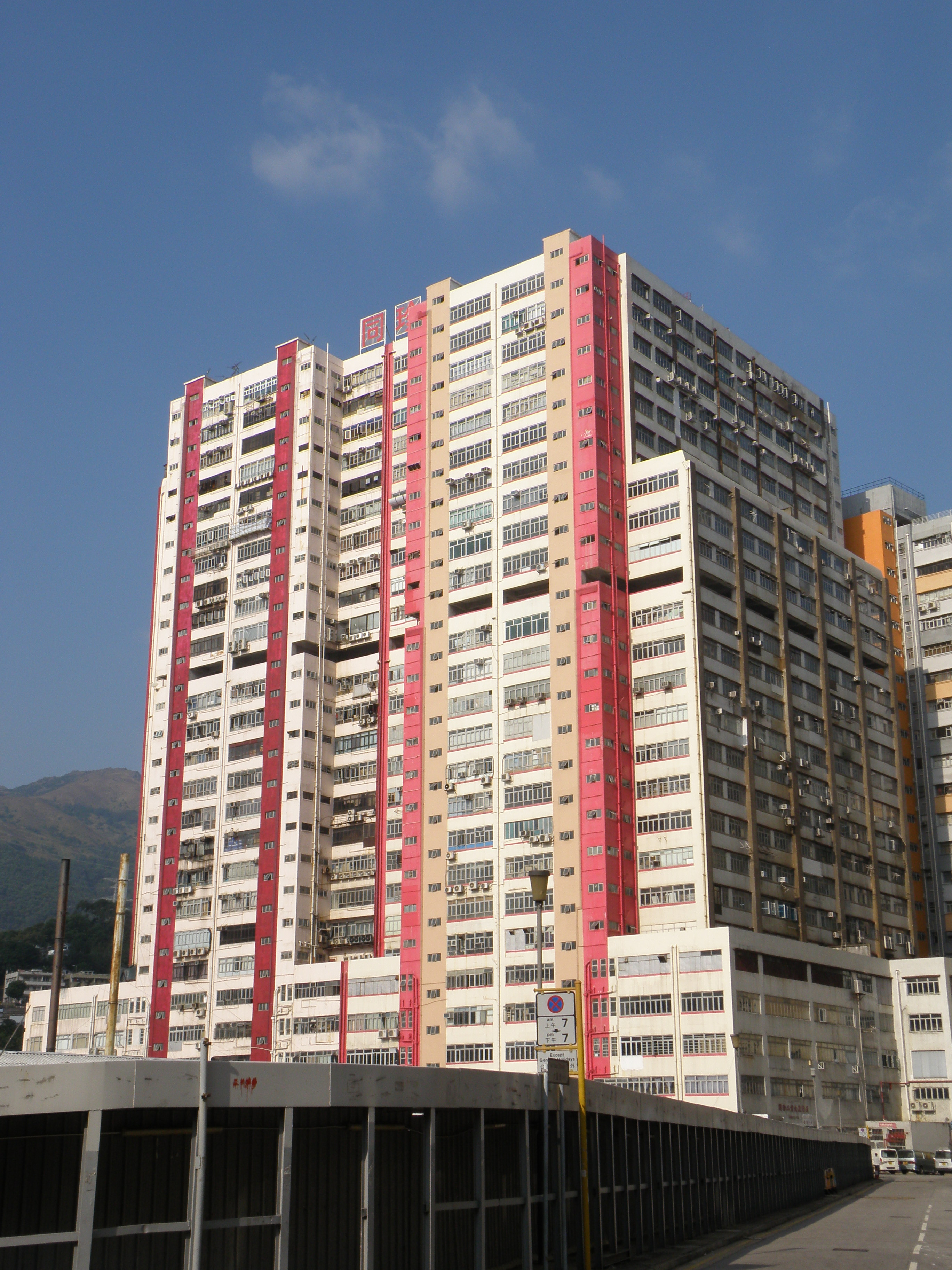 Tung Chun Industrial Building in Kwai Chung, Hong Kong.